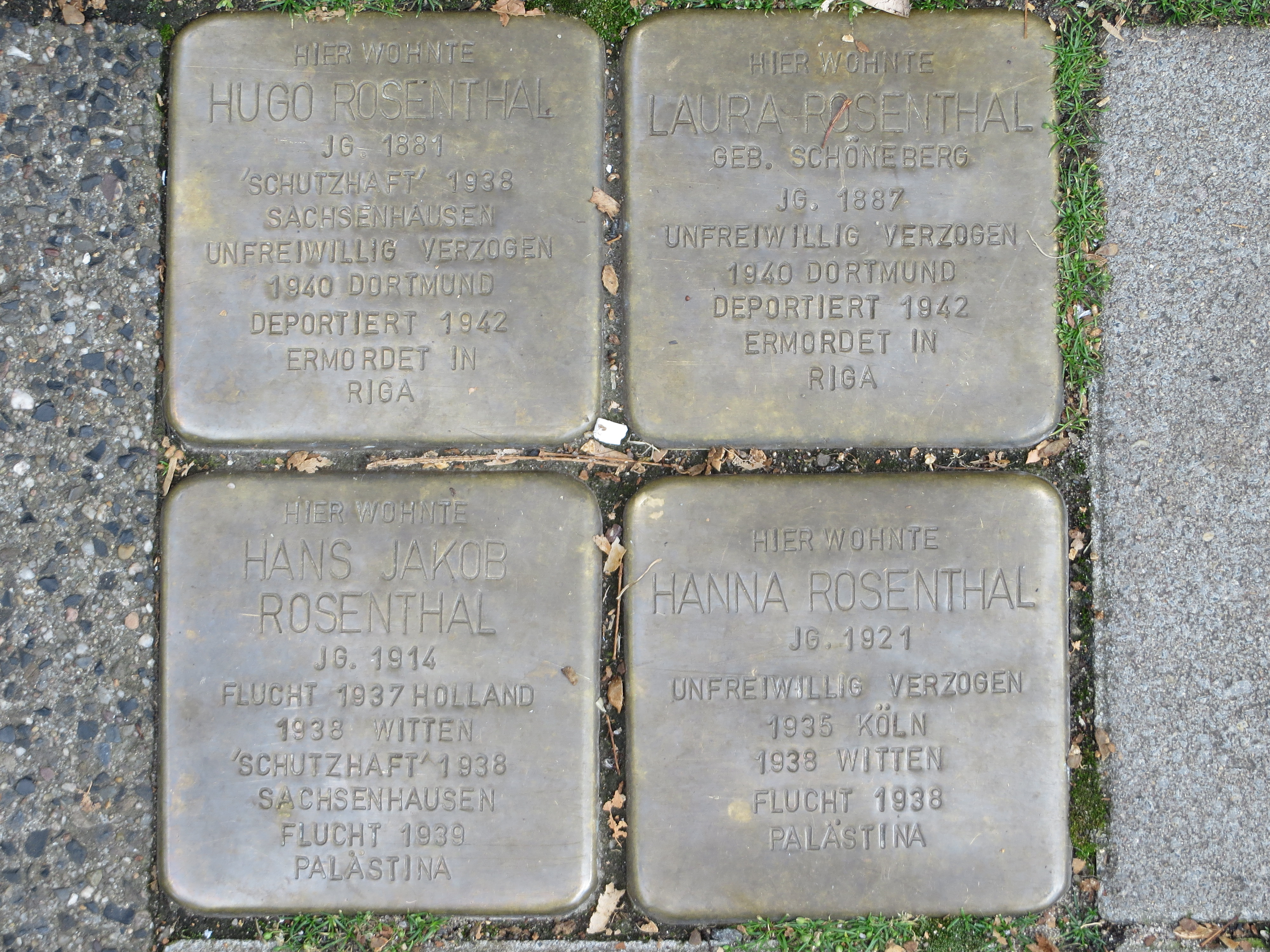 Stolpersteine at house Hörder Straße 326 in Witten, Germany